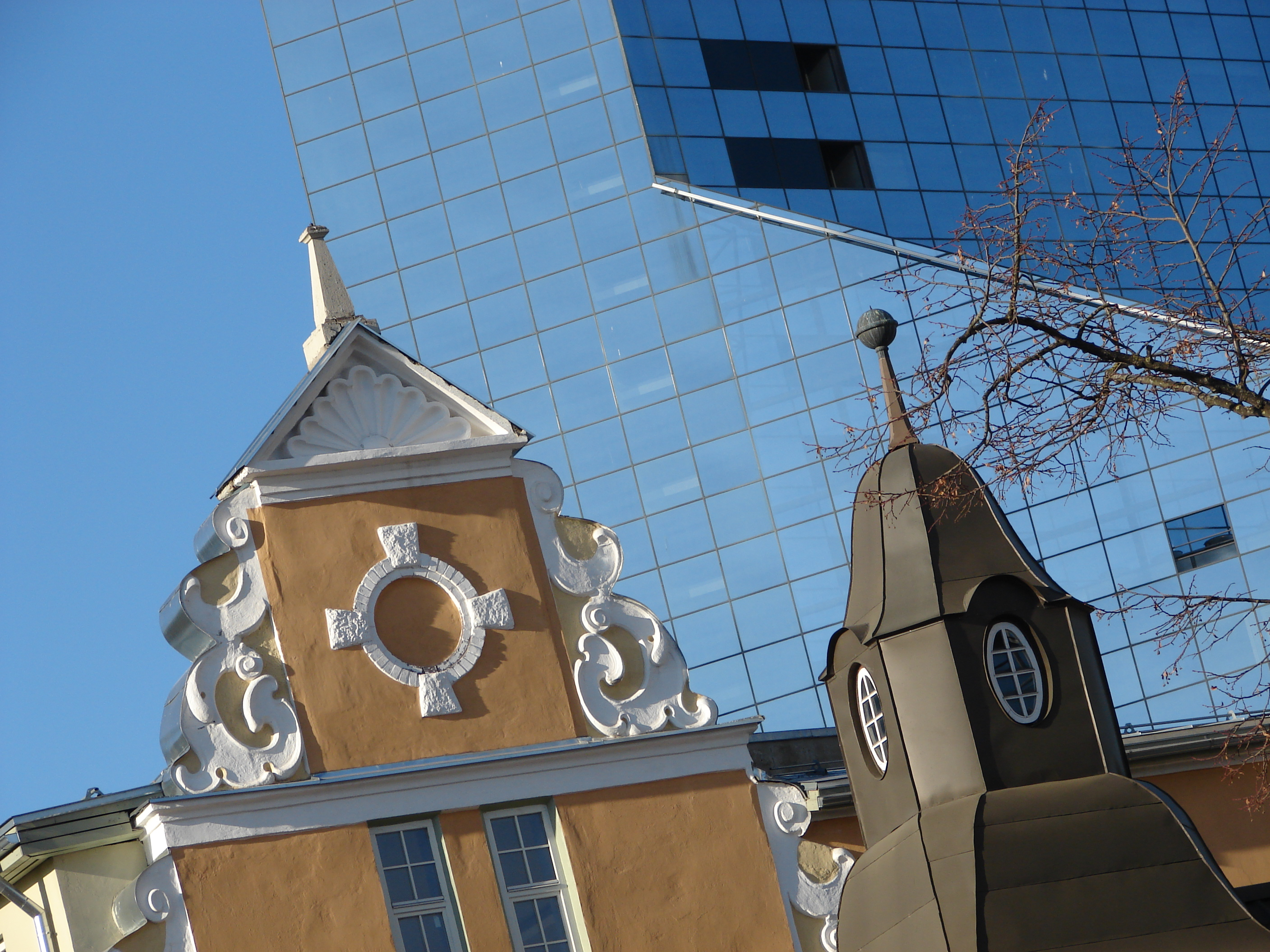 Maakri 19/21 (left), Maakri 23 (right) and Tornimäe 2 (SEB) in Tallinn, Estonia